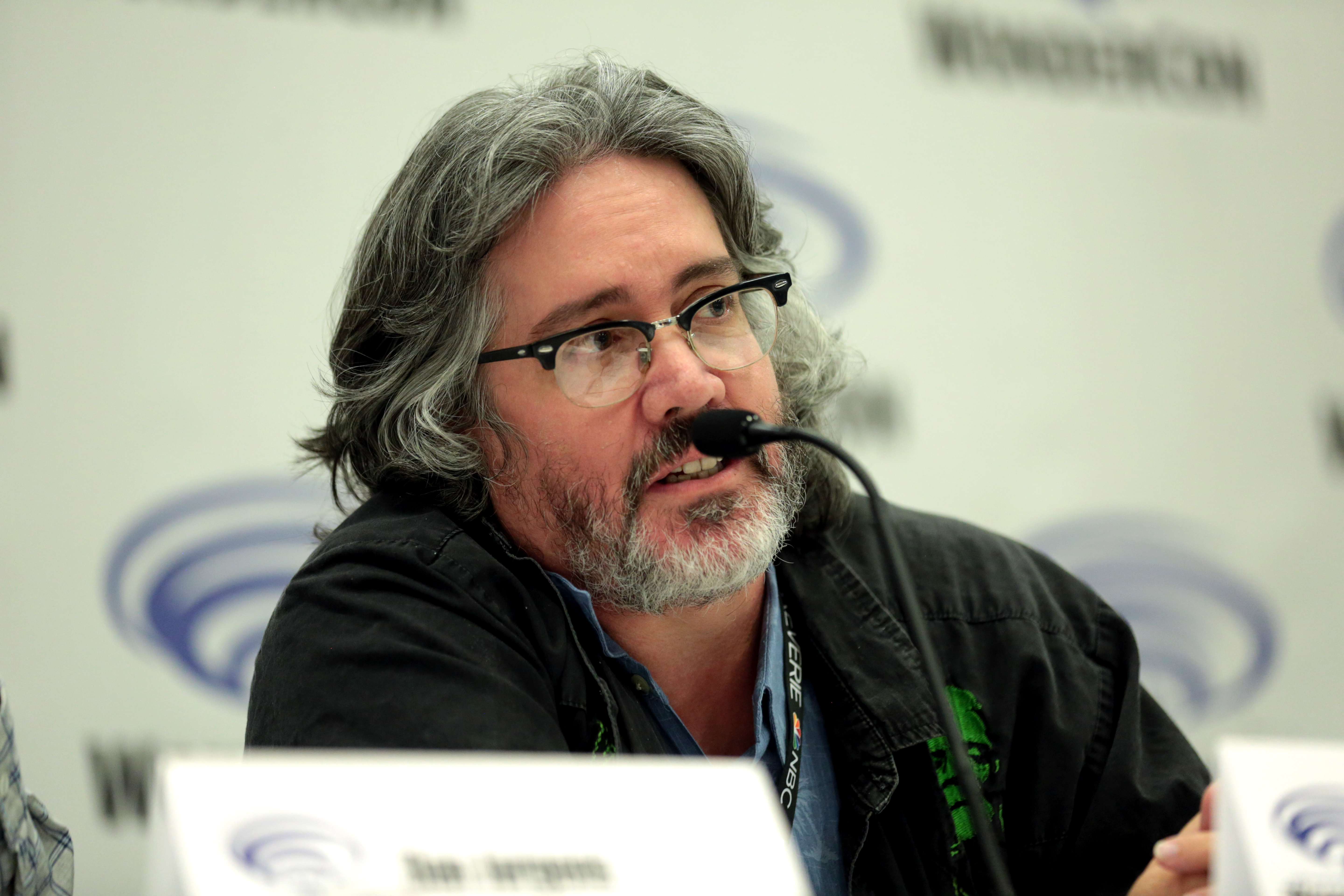 Kelley Jones speaking at the 2018 WonderCon at the Anaheim Convention Center in Anaheim, California.